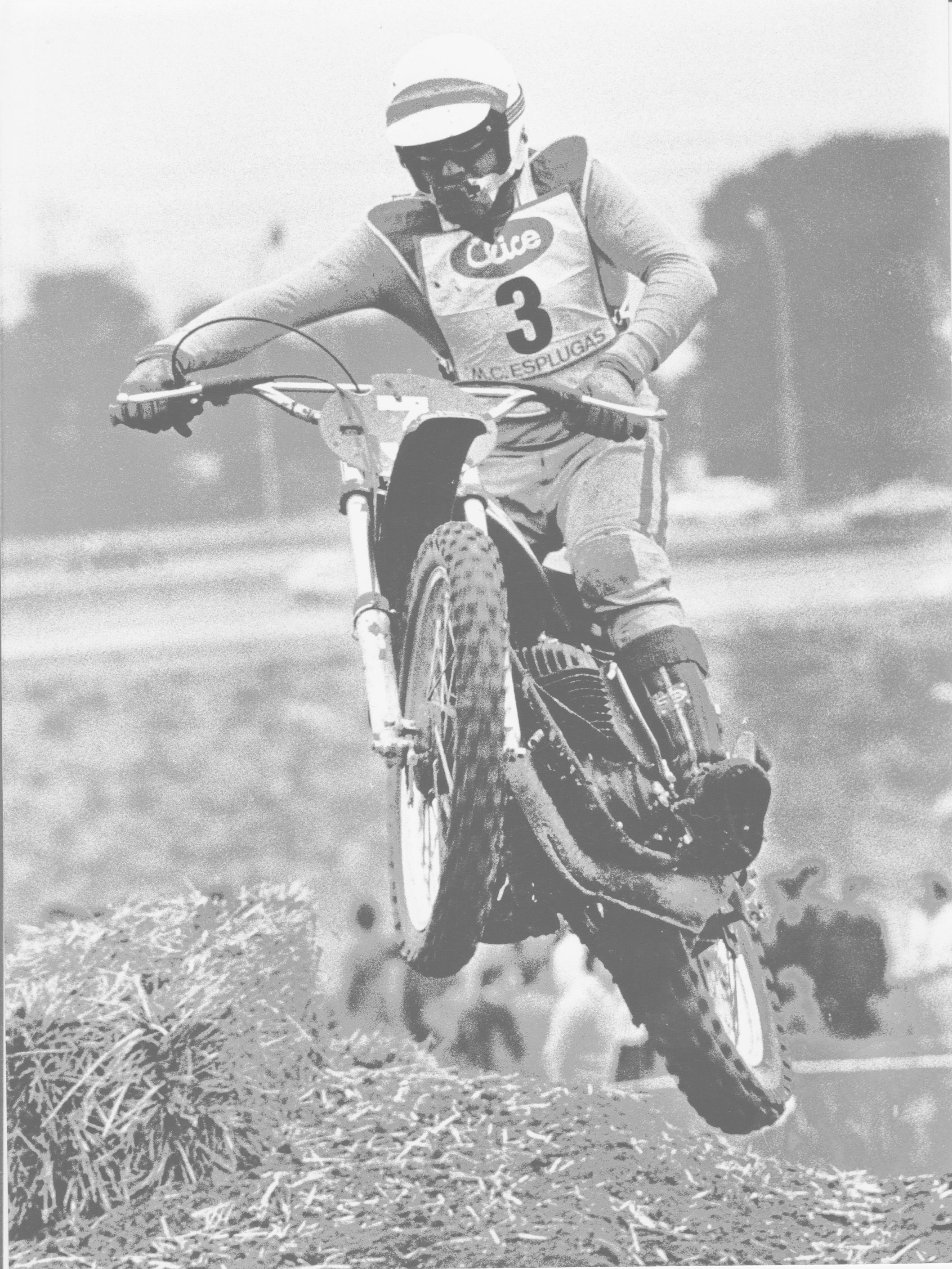 Domingo Gris at 1974 Esplugues Motocross